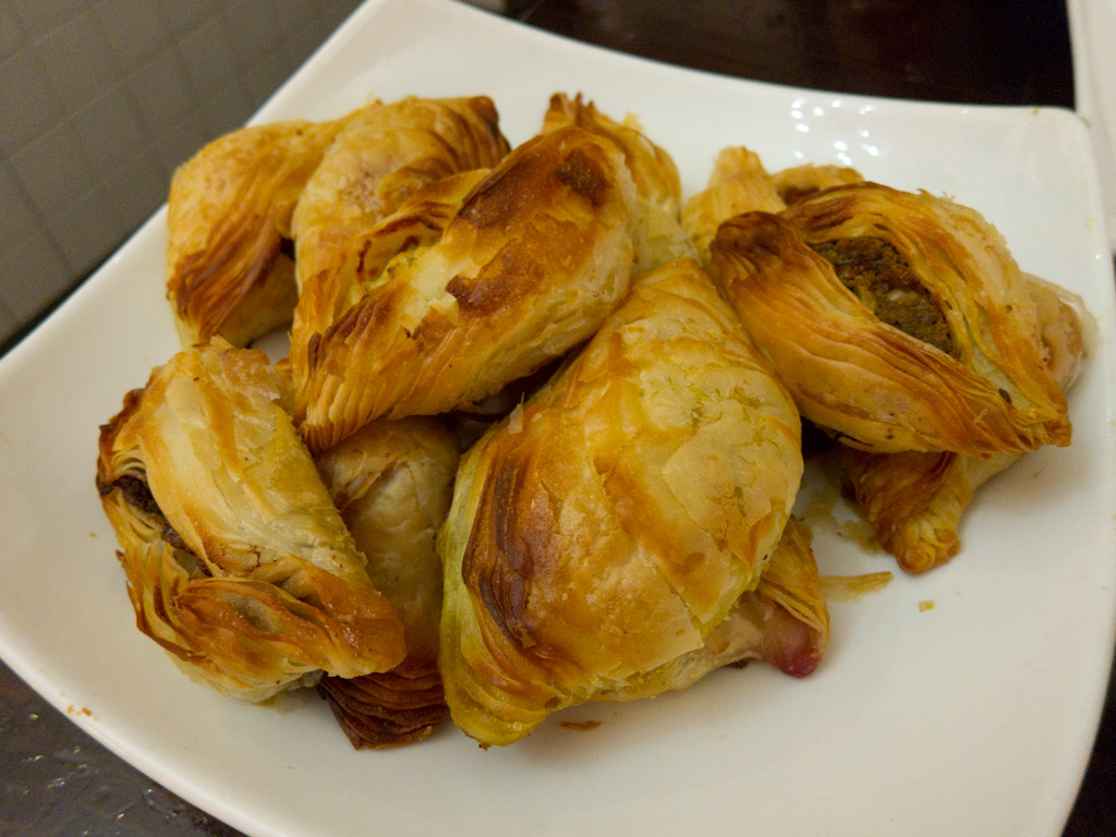 Pastizzi, Malta.